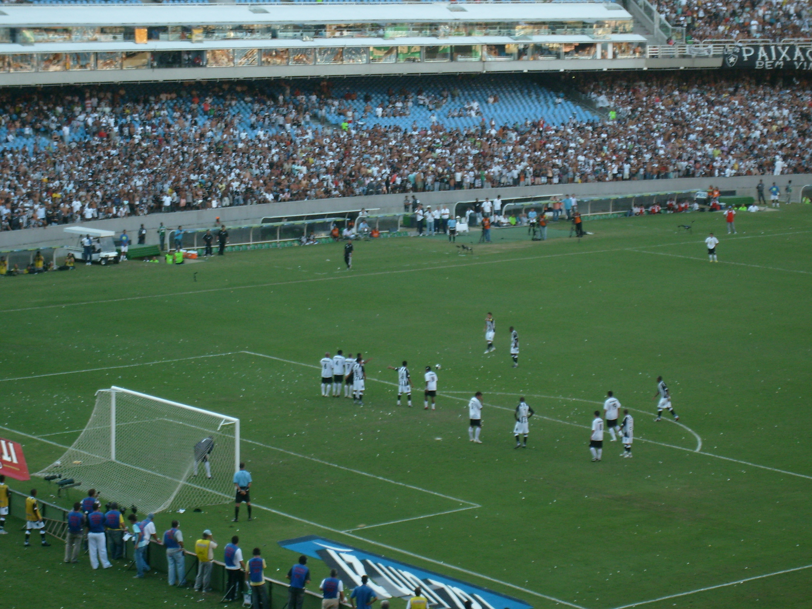 2009 Taça Guanabara's final match: Botafogo 3-0 Resende.